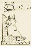 Don Diego Tehuetzquititzin, colonial governor of Tenochtitlan, from Historia del Imperio Azteco.